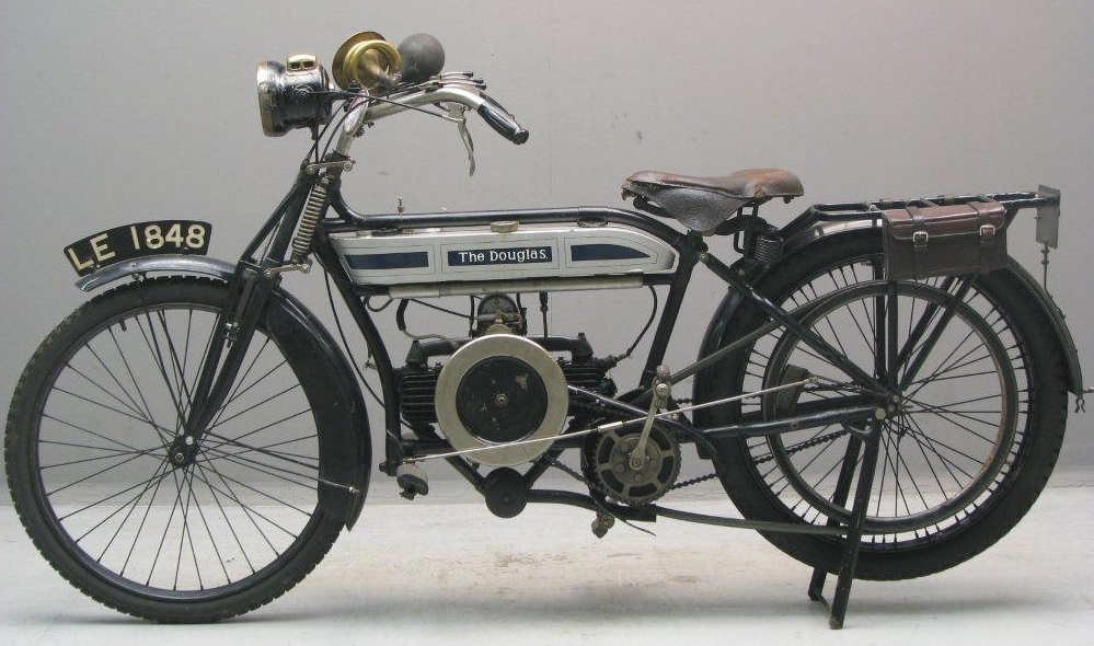 1912 Douglas Model G 346 cc flat twin